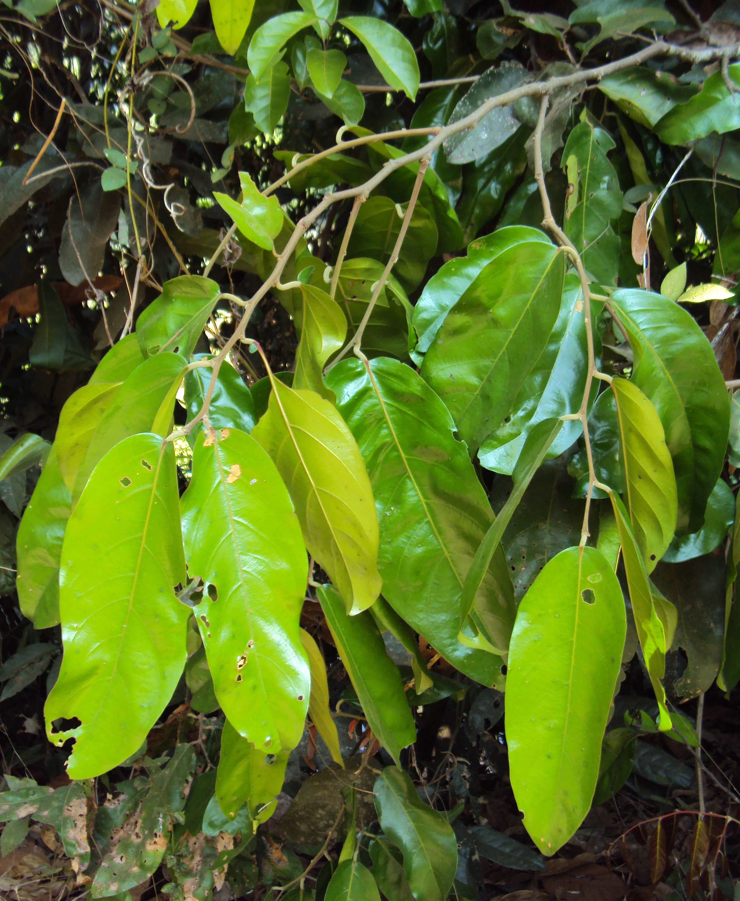 Hopea Ponga